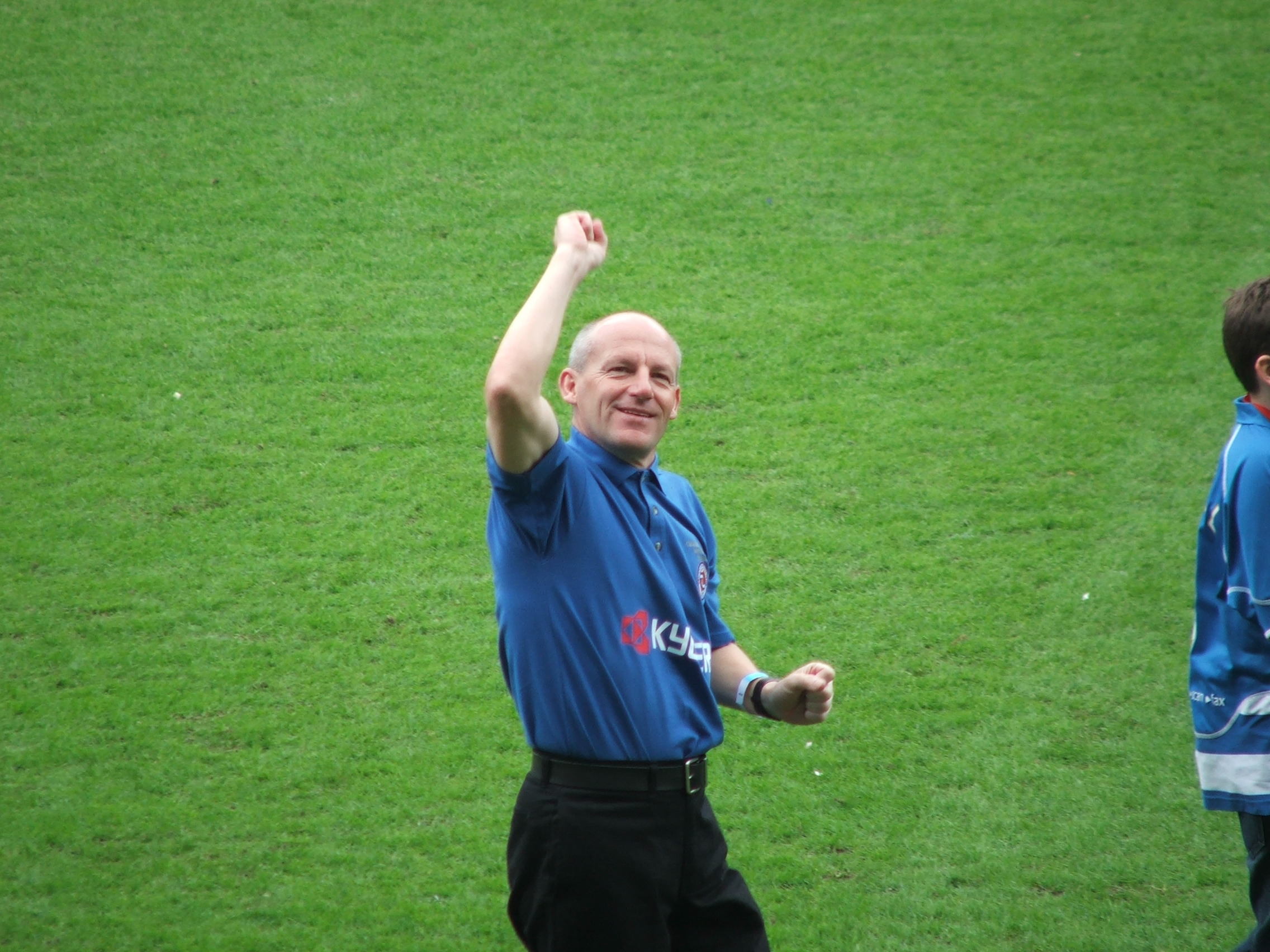 Reading's manager Steve Coppell celebrates promotion to the English Premiership